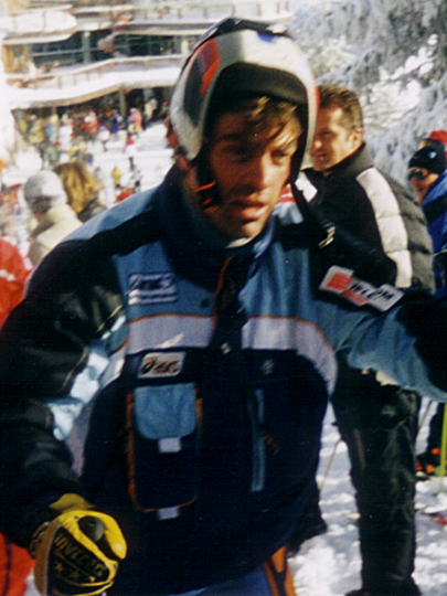 Italian alpine skier Kristian Ghedina before downhill training in Kitzbühel (Austria) on January 20th, 2000.